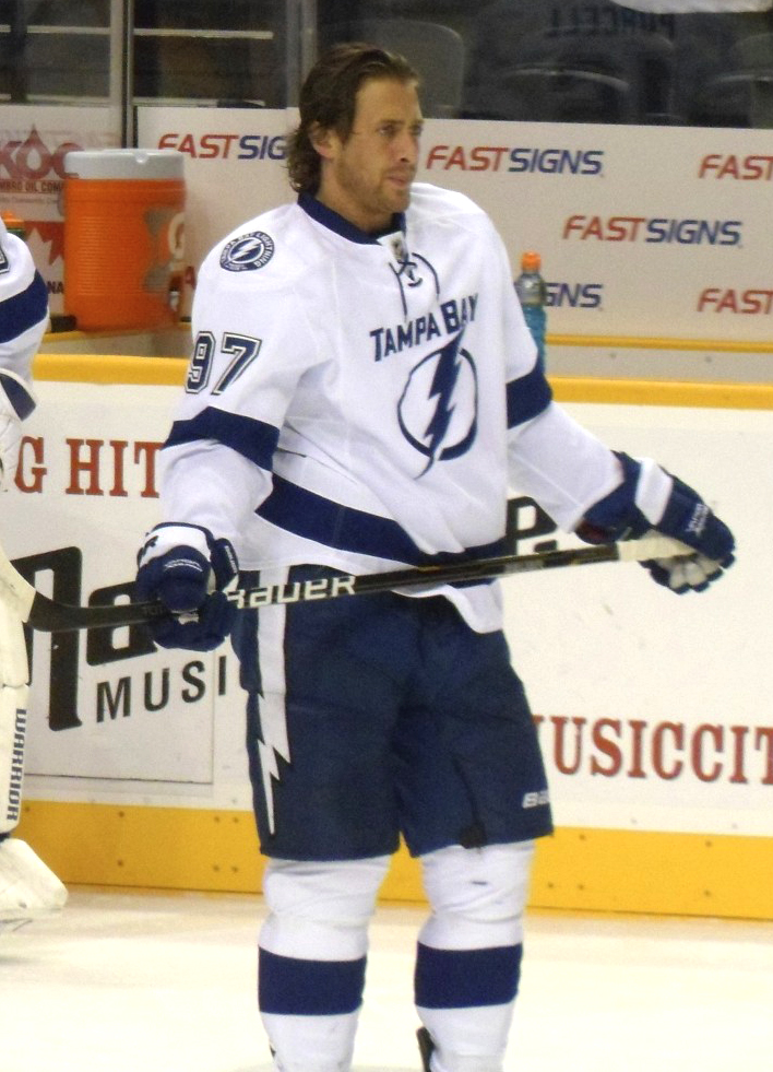 Matt Gilroy of the Tampa Bay Lightning takes warm ups in Bridgestone Arena in Nashville, TN before a game against the Nashville Predators on October 27, 2011.